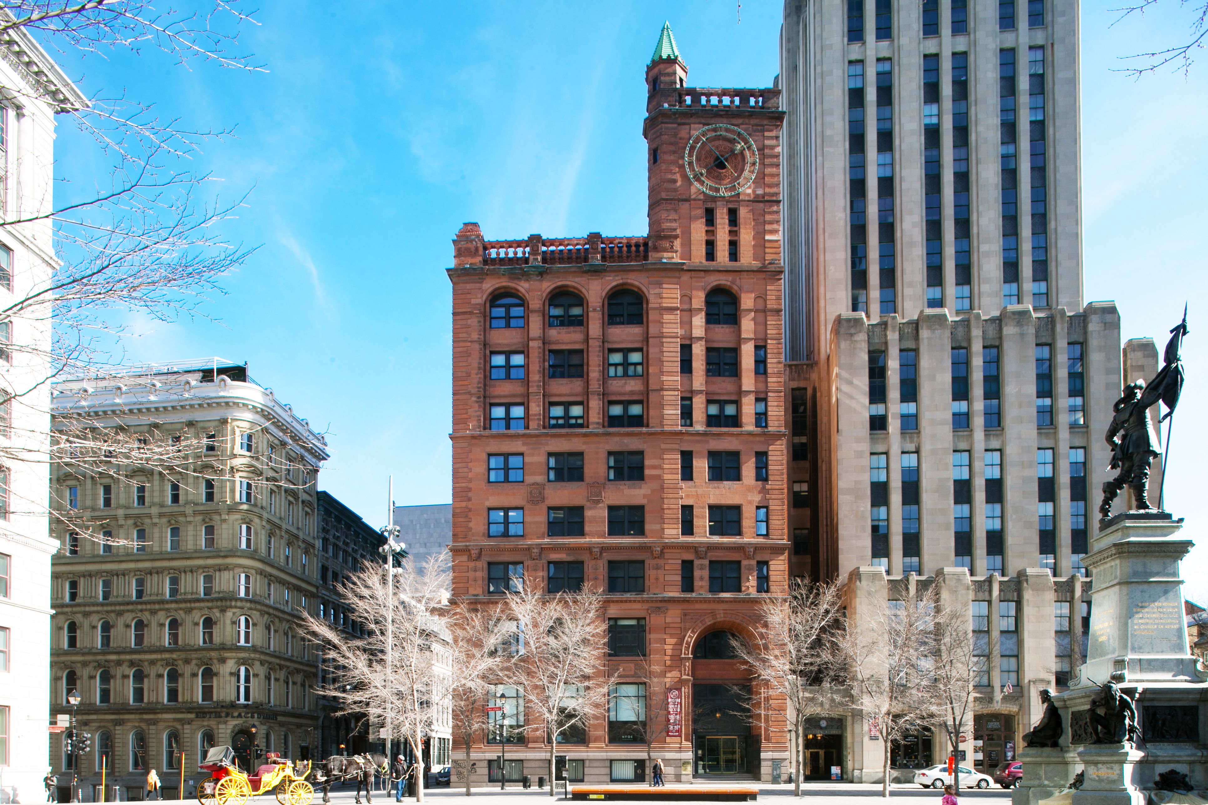 Front facade of the building